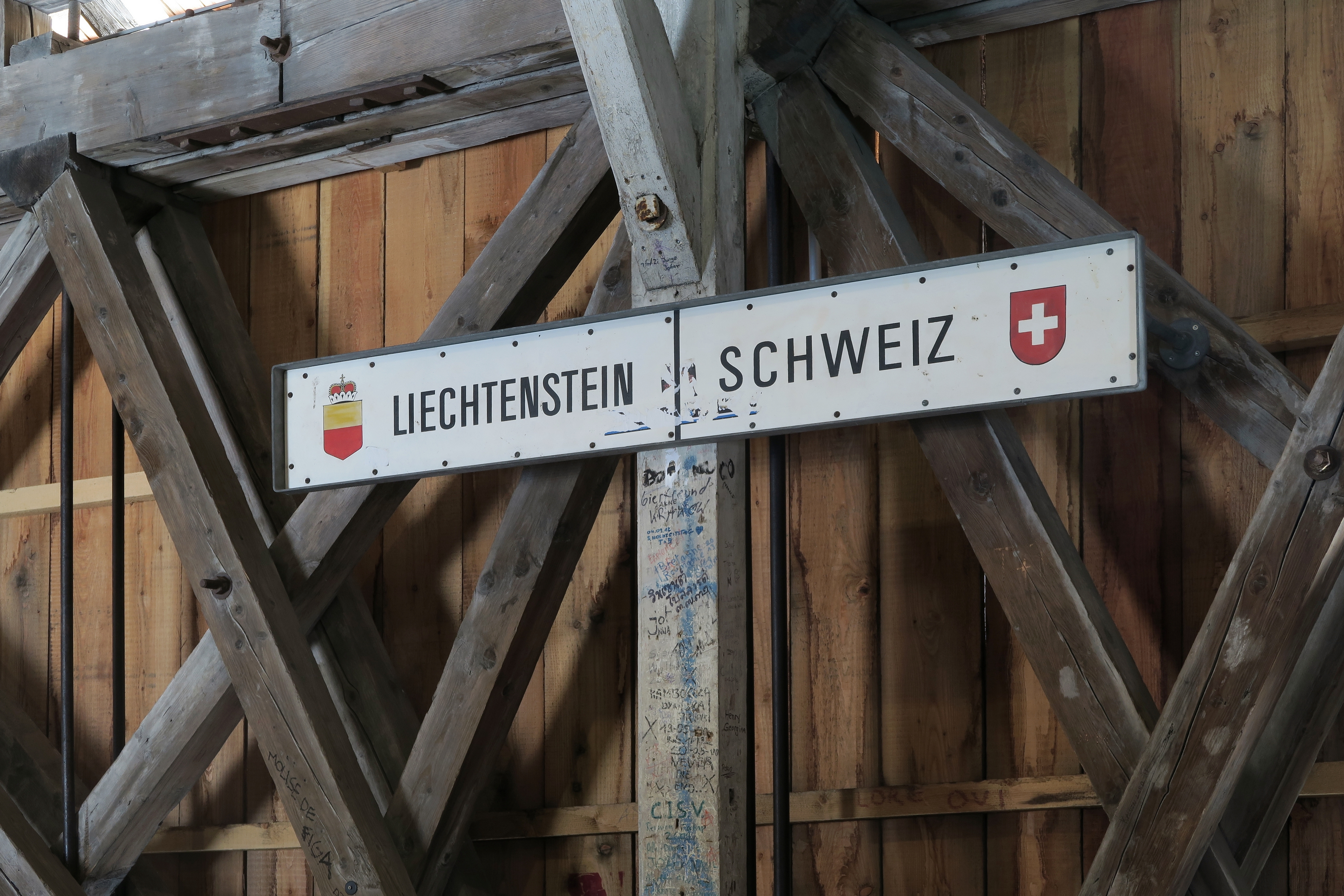 The border between the Principality of Liechtenstein and Switzerland. An open border like everywhere between the two countries. Switzerland, Feb 19, 2015. (3/6)